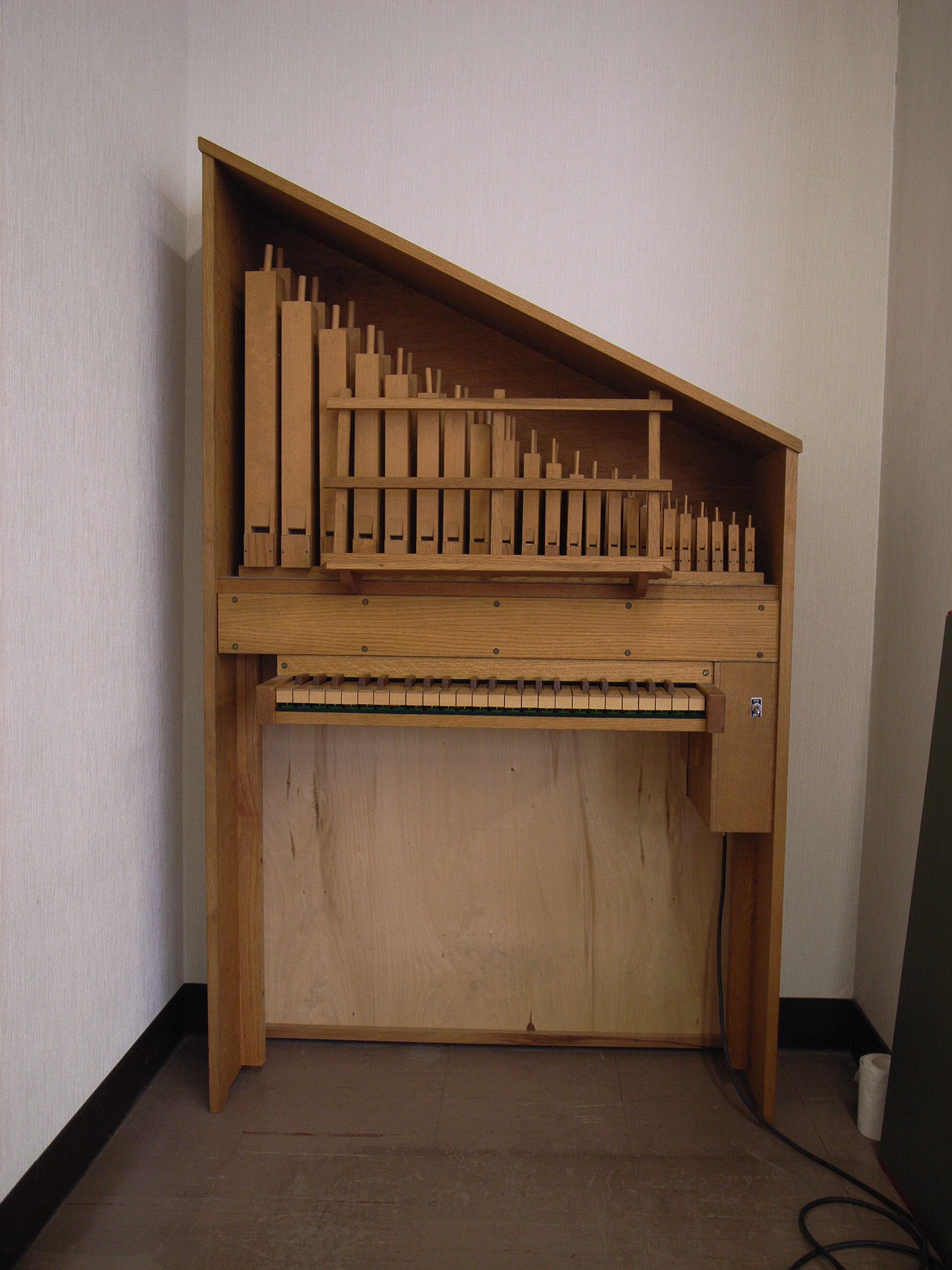 Organ (It is similar to "Regal Positive Organ" modeled after 14th-17th century organ on this page, however, I don't know my estimation is correct or not ...)